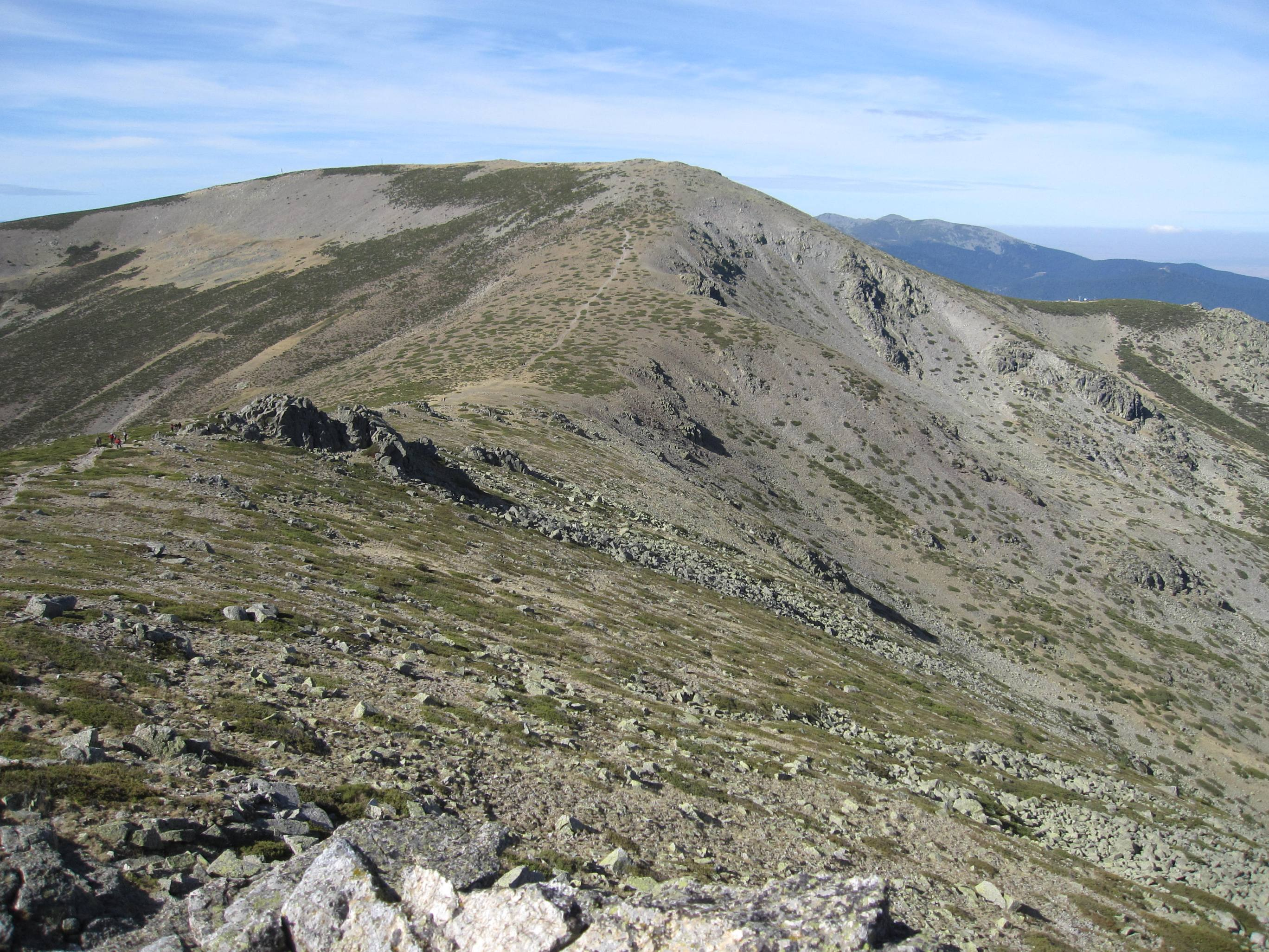 Northeast side of Cerro de Valdemartín seen from Cabeza de Hierro Menor (Guadarrama mountain range, central Spain).